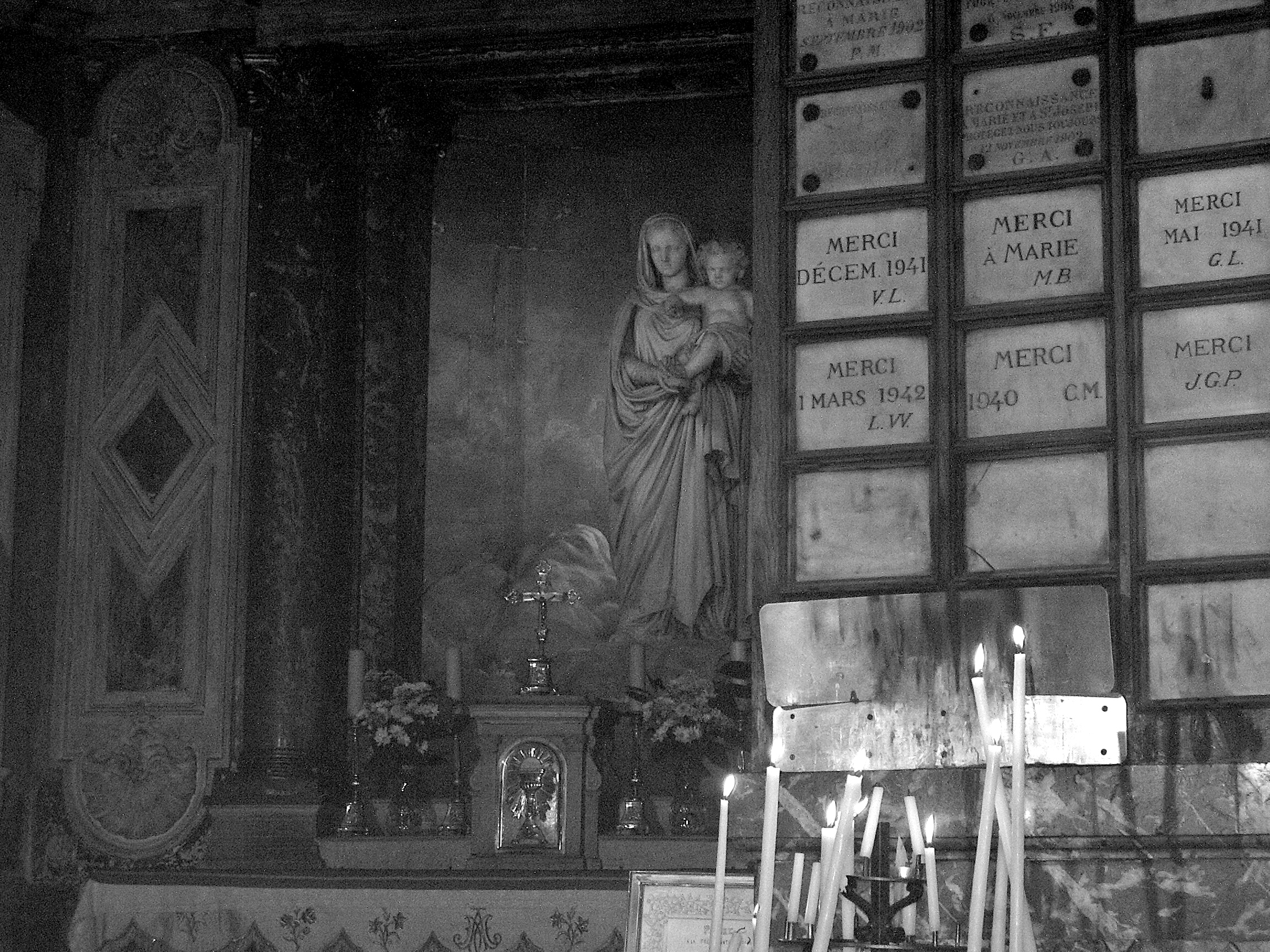 Autel et statue de la Vierge de Saint-Nicolas-du-Chardonnet avec lueur des cierges et ex votos